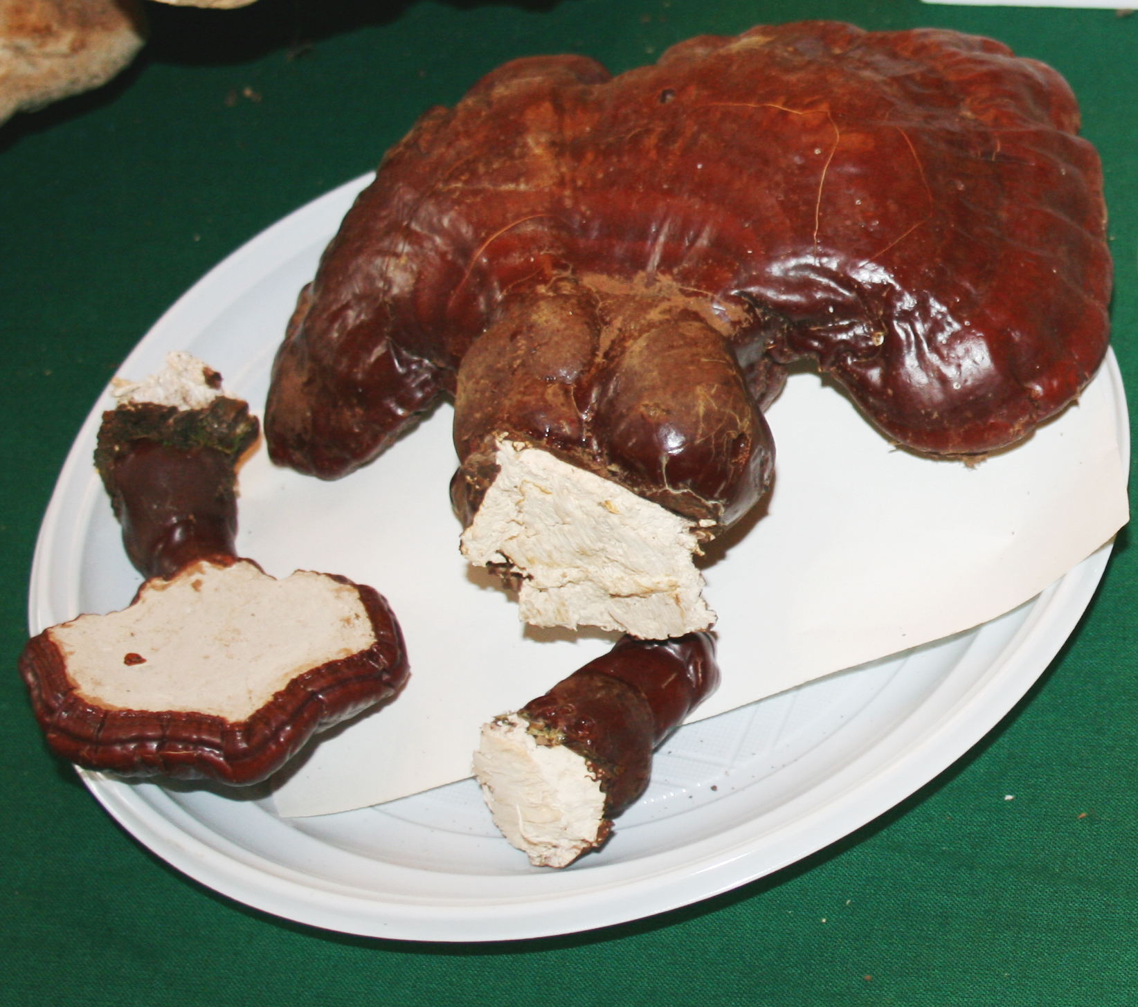 Ganoderma lucidum at the 12-th countrywide mushroom exhibition 2008, Žofín, Prague, Czech Republic Česky: Leskokorka lesklá, Ganoderma lucidum, 12. výstava hub, Praha-Žofín 20.–21. 9. 2008